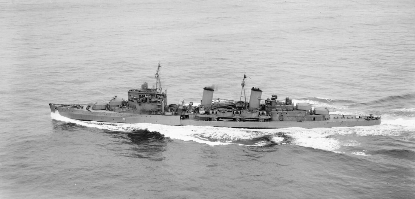 Aerial view of HMS EDINBURGH, 'Southampton' class (third group) cruiser in Scapa Flow, October 1941